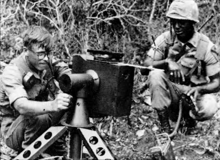 Ground Laser Locator Designator (GLLD) designed to home special laser-guided missiles, bombs, or artillery shells to their targets being tested by MICOM